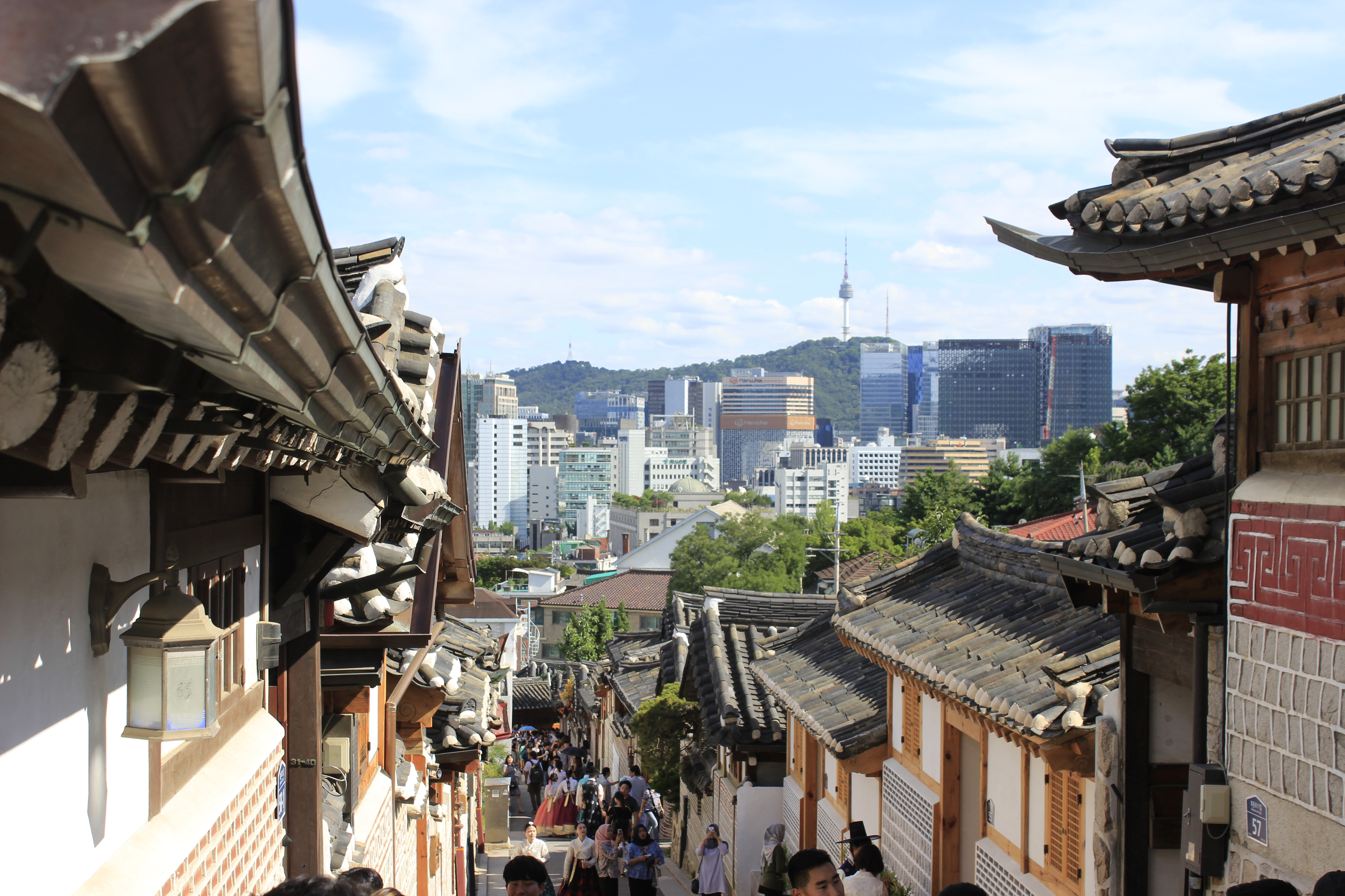 Bukchon Hanok village in 20180707